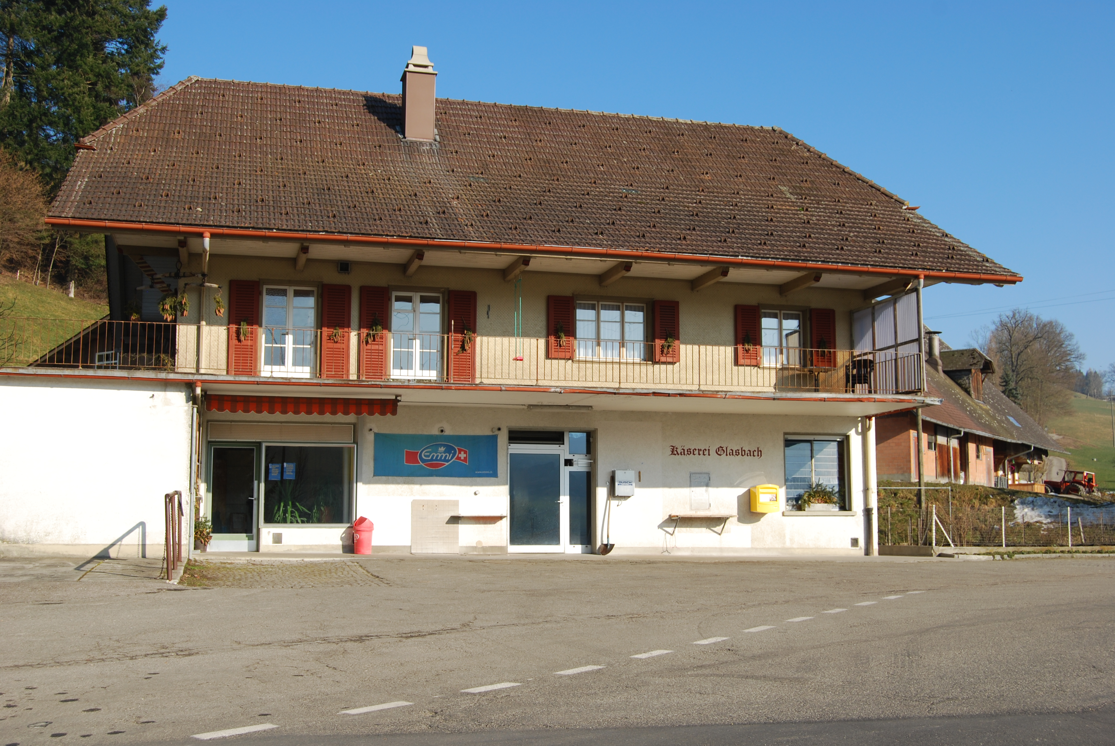 Rohrbachgraben, canton of Bern, SwitzerlandEsperanto: Rohrbachgraben, Kantono Berno, Svislando